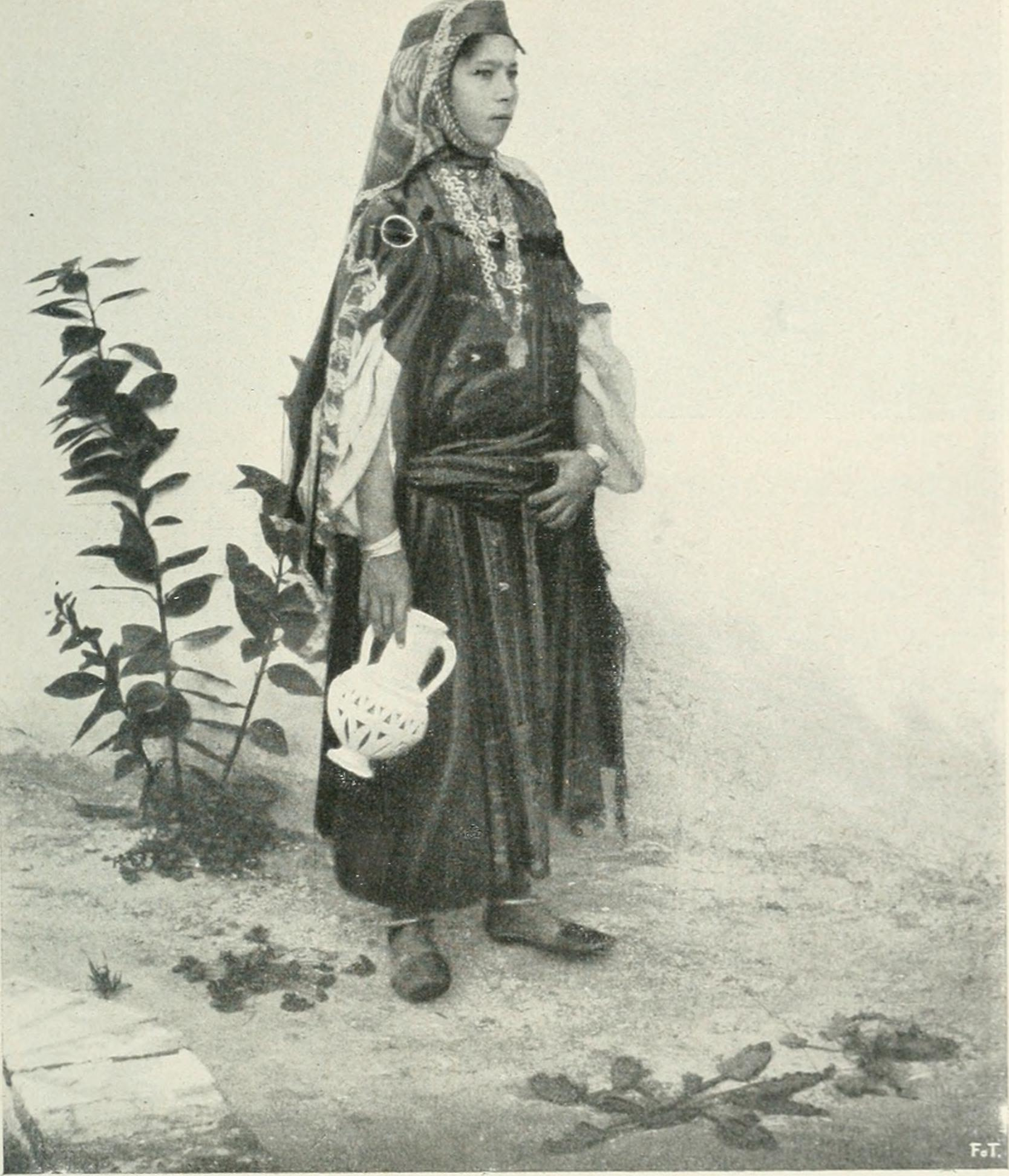 Title: Il diario di un viandante (Dal Deserto al Mar Glaciale) Year: 1911 (1910s) Authors: Beltramelli, Antonio, 1879-1930 Subjects: Voyages and travels Publisher: Milano, Treves Text Appearing Before Image: mprovviso balzare di un fresco risoin una letizia mattutina. Canta unantica canzone moresca,una canzone damore. Forse nella casa occulta, innanzi alpatio ricco di colonne, fra tappeti e candelabri di Ijronzoe lampade a tronco di piramide tutte arabeschi e lucentezze,ella danzerà agitando (alte le nude braccia) seriche stoffevermiglie ; danzerà fra i profumi dellincenso e dellambra,del muschio e del belzuino, le caratteristiche danze orien-tali assecondate a meraviglia da questa musica singolare.Basterà al suo moto, un solo tappeto, un niente, uno spaziotanto raccolto da poter raccogliere nulialtro che i suoi piccolipiedi; e gli occhi di lei, gemmanti, vivi di un interno ardore,si fisseranno immobili come il bianco viso, fermo nello smarri-mento dellebbrezza. Poi il collo si snoda, e il torso e il seno,senza che il capo ondeggi, trema e si agita come il giunco ecome il ligustro sotto limpeto della fiamma ; finche la can-z(me si imiorc e tutto si tace in un inido breve ed improvviso. Text Appearing After Image: Luà sposa beduuui.